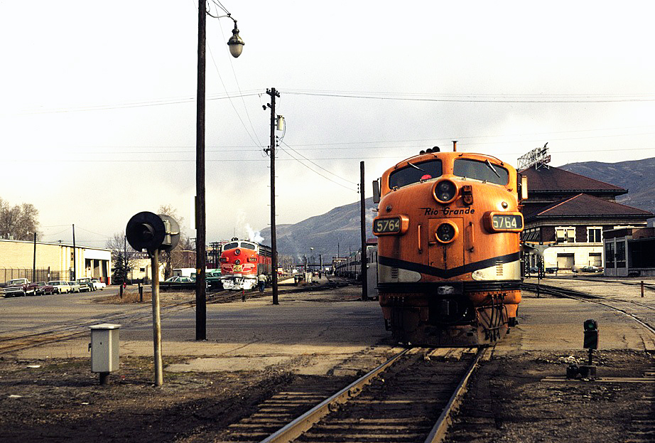 March 21 1970, next to last California Zephyr leaving Salt Lake. The Western Pacific units on the left had brought the train from Oakland and would take the last Zephyr West that night